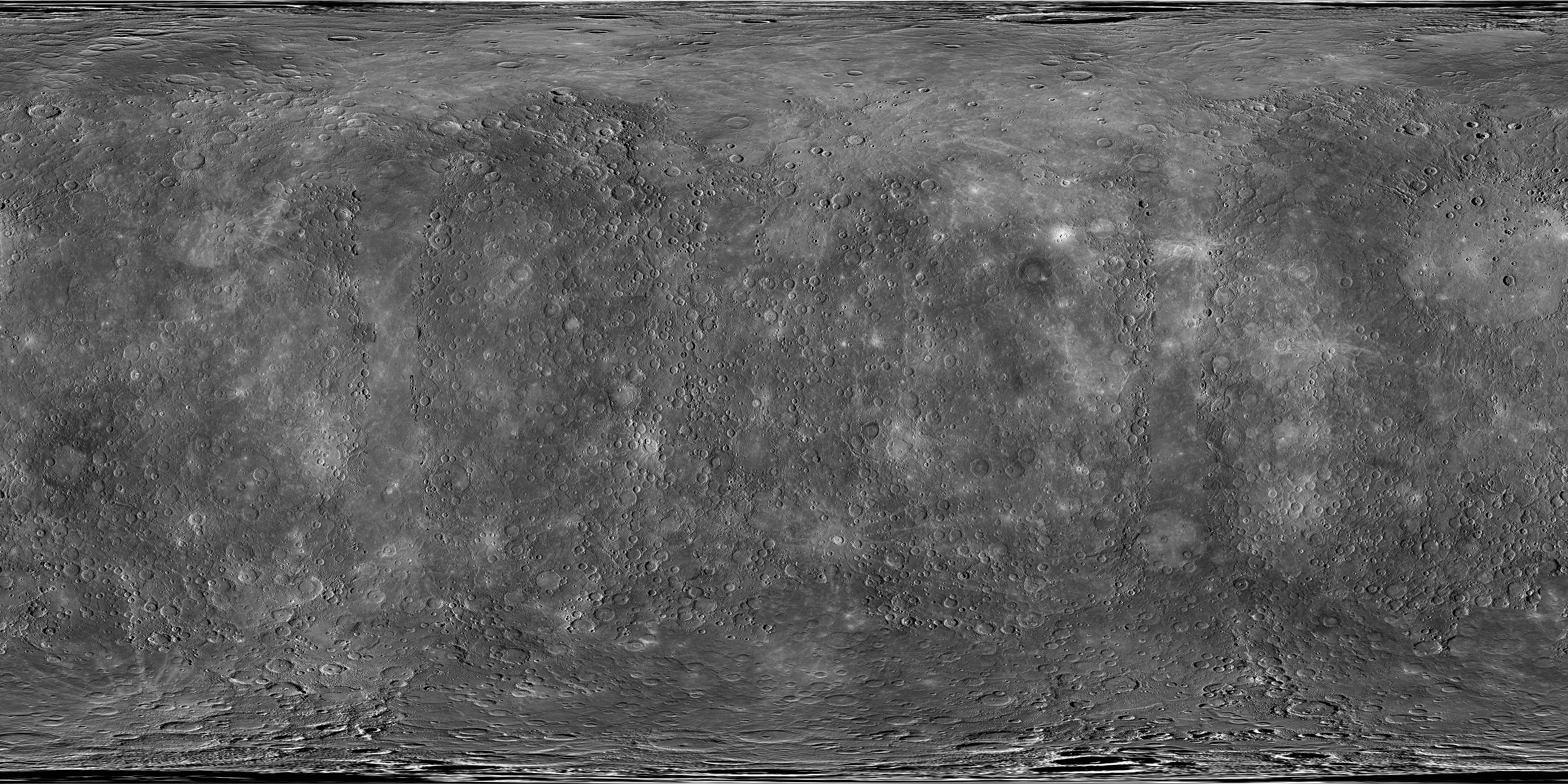 A global mosaic of the surface of Mercury in monochrome, created with images taken by the MESSENGER spacecraft